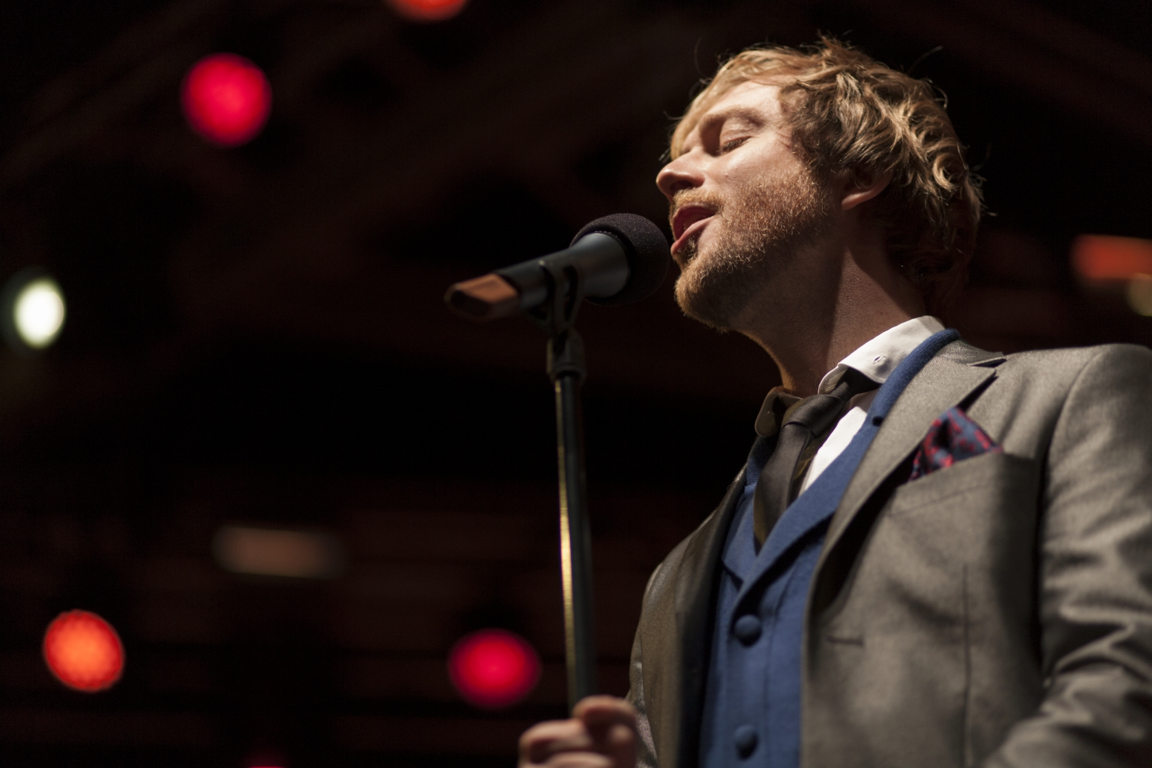 Danish singer Mads Mathias. Concert in Tivoli park. Copenhagen, Denmark.